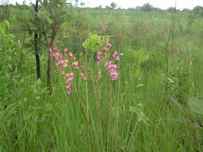 Cyrtopodium brandonianum in situ